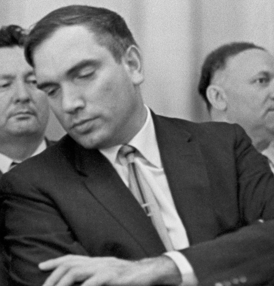 Political analyst Enver Mamedov, at a conference of foreign representatives and personal correspondents of the Novosti Press Agency (APN).